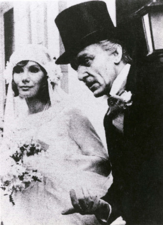 A photograph of the show "The Forsyte Saga."